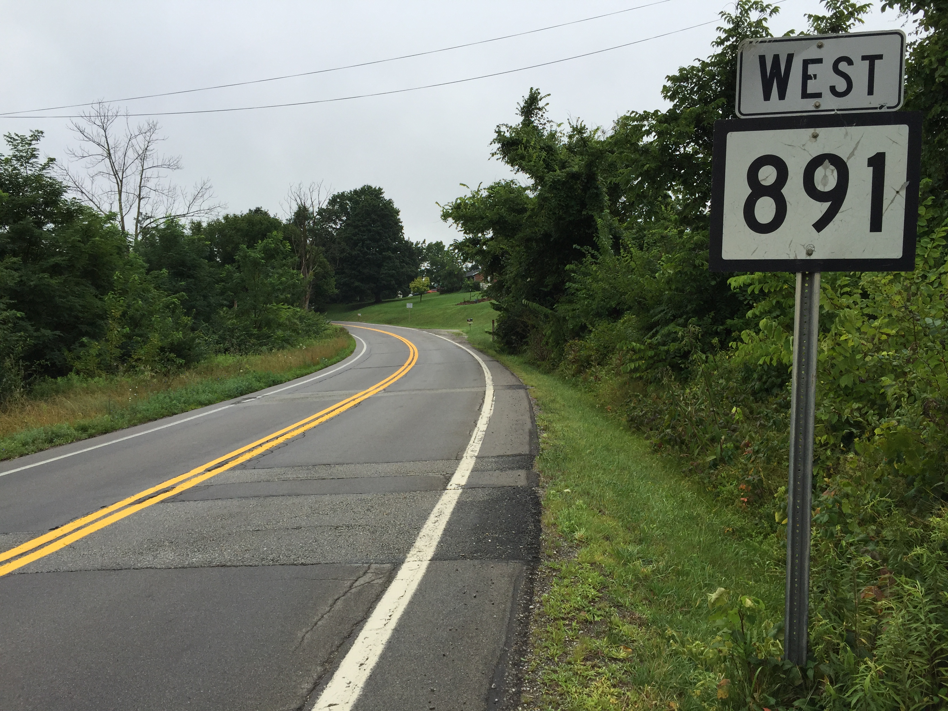 View west along West Virginia State Route 891 just west of the Pennsylvania state line in Rocklick, Marshall County, West Virginia